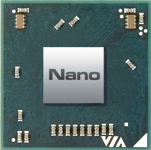 VIA Nano Chip Image (top)